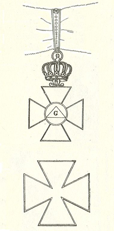 Commander in the Order of Karl XII Sweden